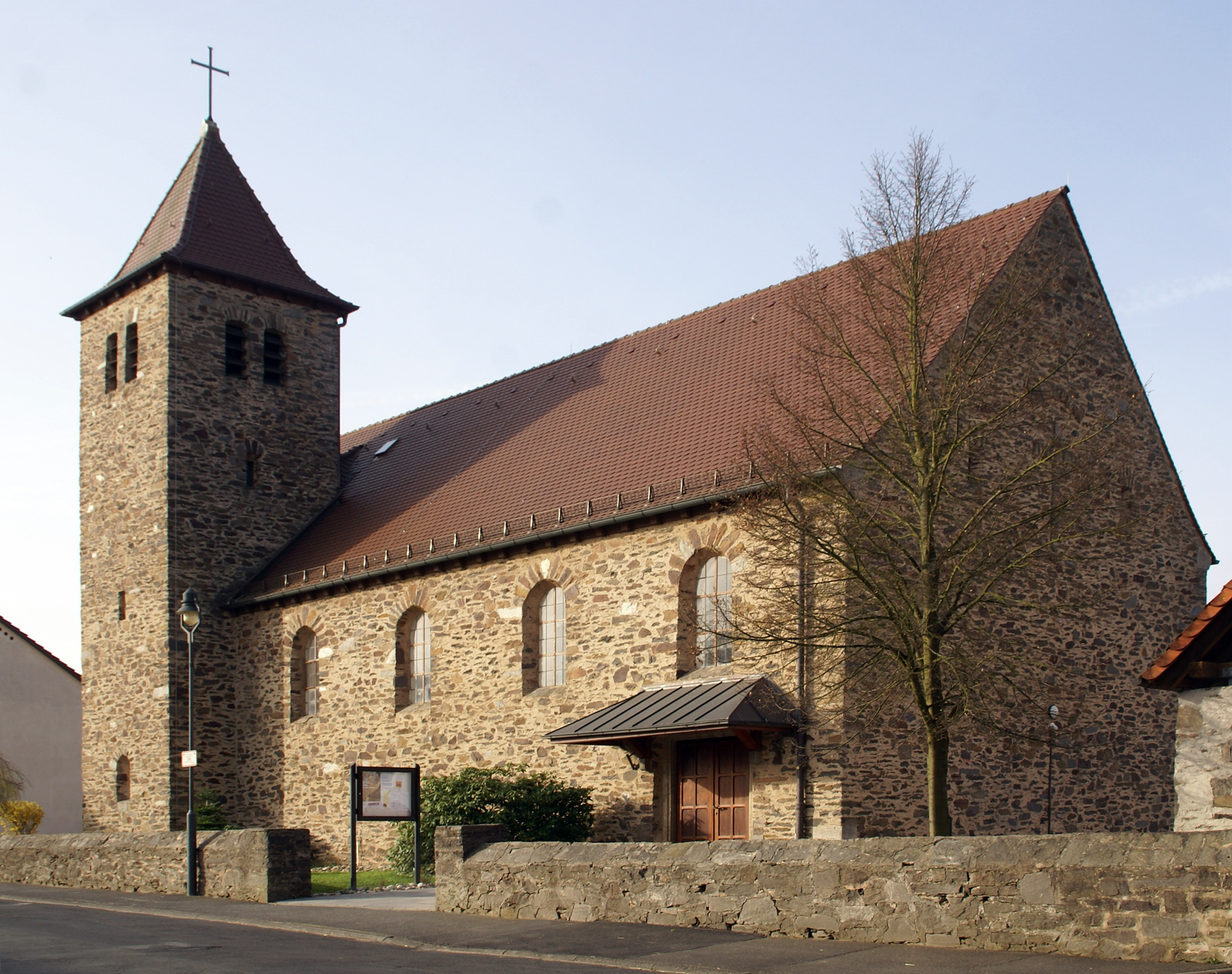 Church of Heiligkreuz (Holy Cross) in Daxberg